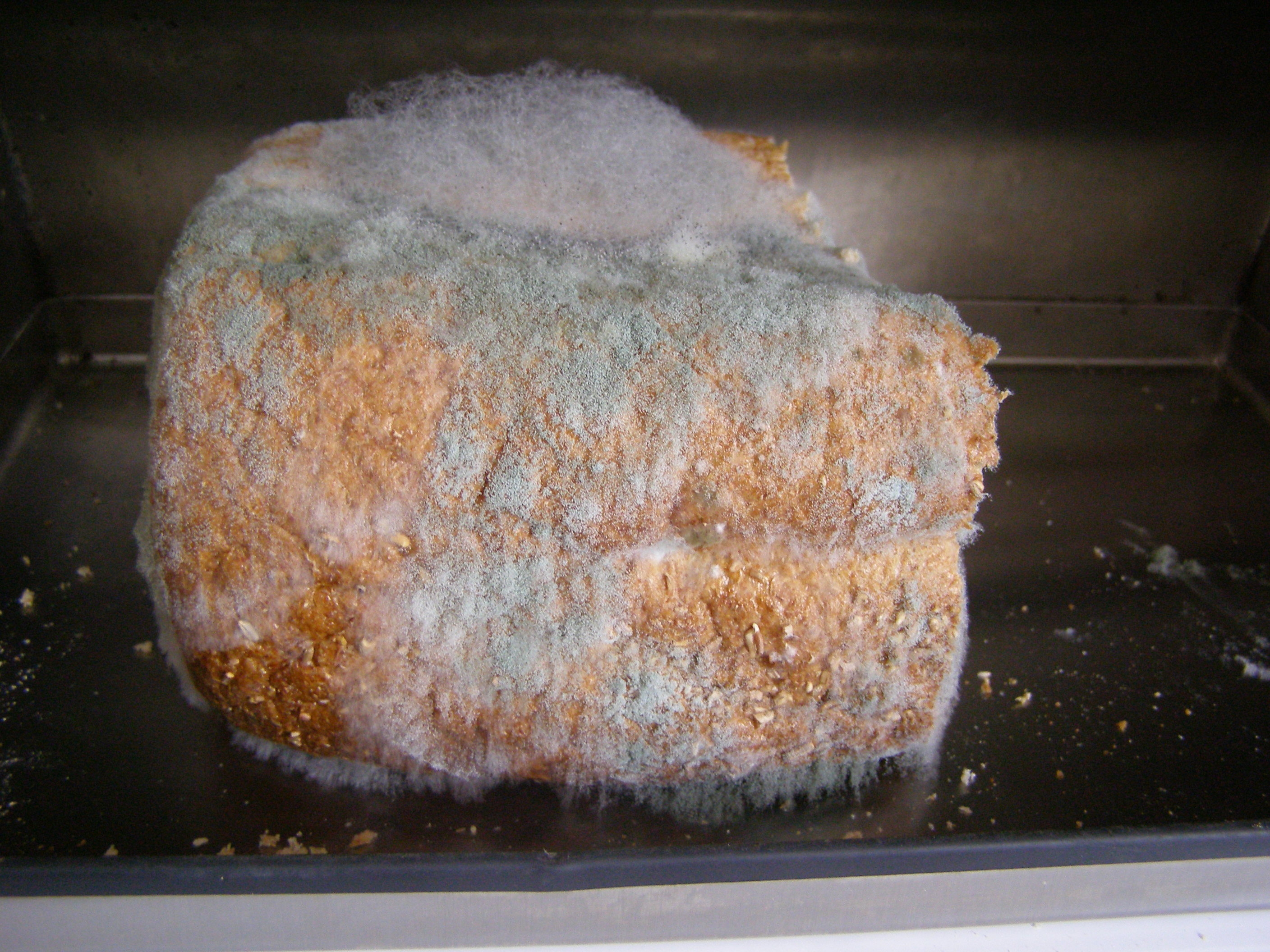 Go away for three days and come back to find this in my bread bin.